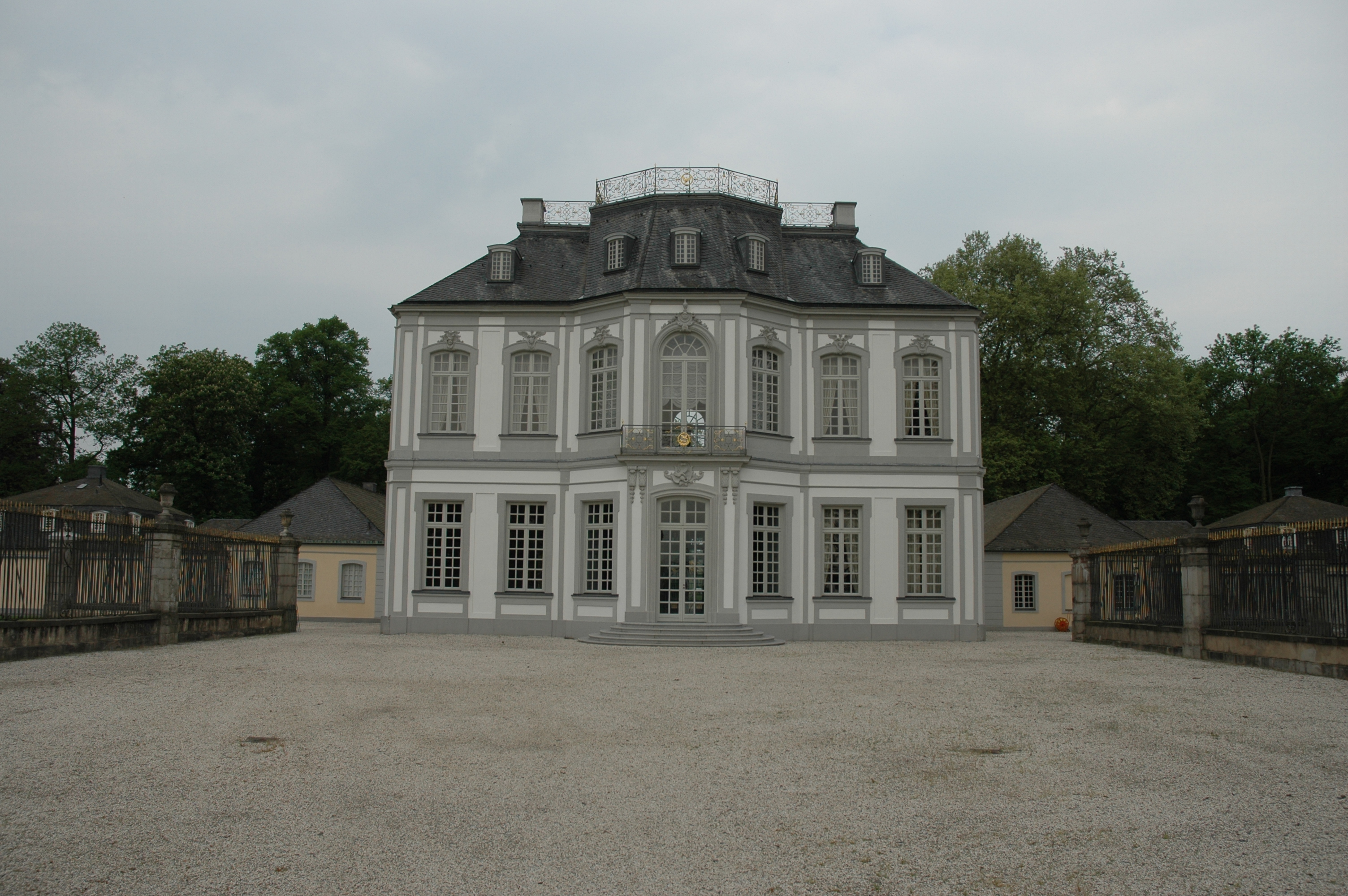 Falkenlust Palace in Brühl, eastern aspect